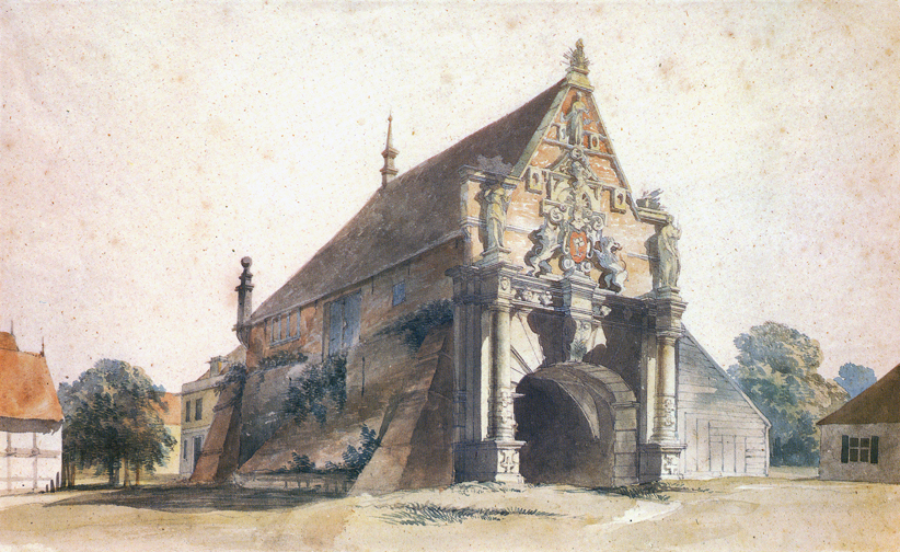 Watercolor painting by George Ernest Papendiek of the old Hohentor (“High gate”) in Bremen Neustadt around 1822, short before the dismantling of the building. Collection of the Focke-Museum Bremen.